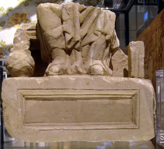 Statuette of Fortuna, Roman, found in the Roman villa in Chilgrove (Chilgrove 1); now in the Museum in Chichester